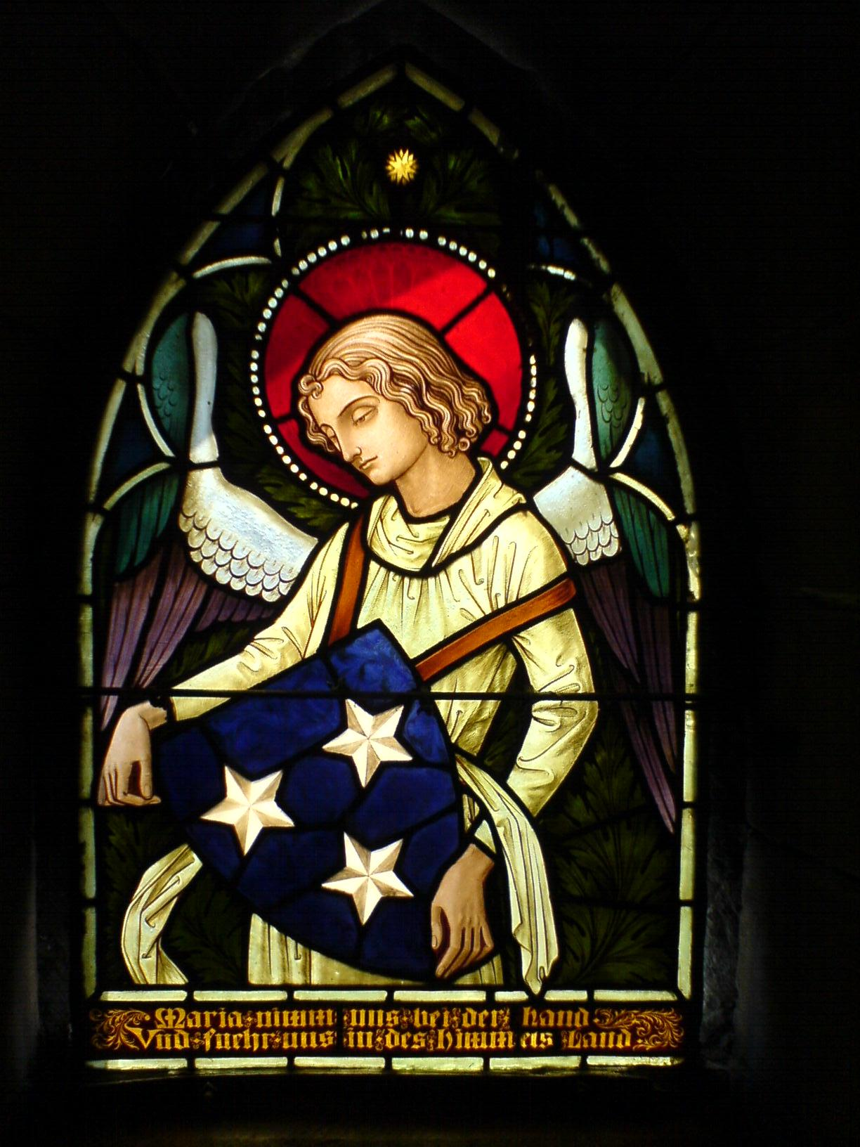 Stained glass in the Chappel of Eyneburg, Belgium.